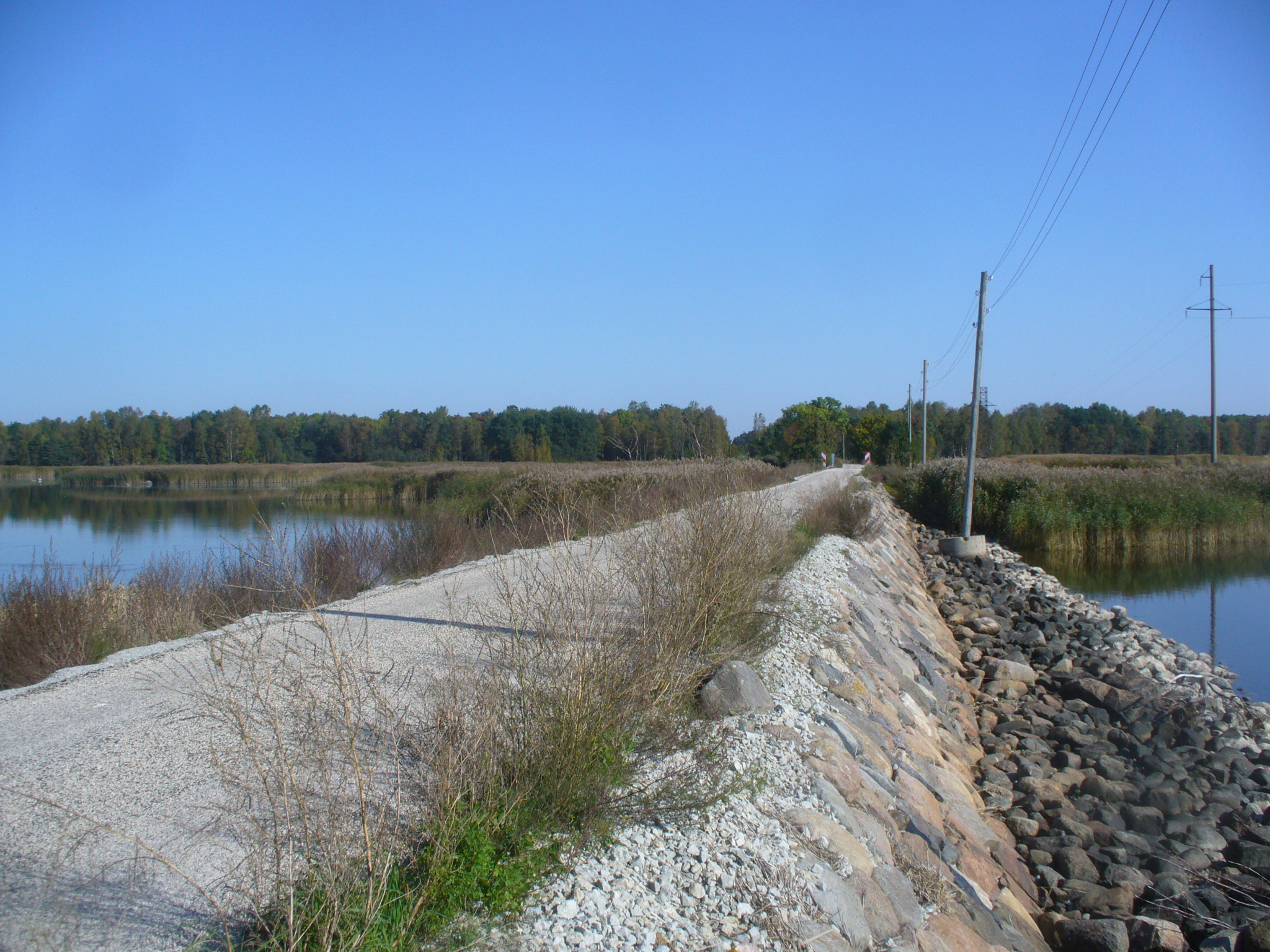 Old railway embankment in Virtsu, Lääne county, Estonia.